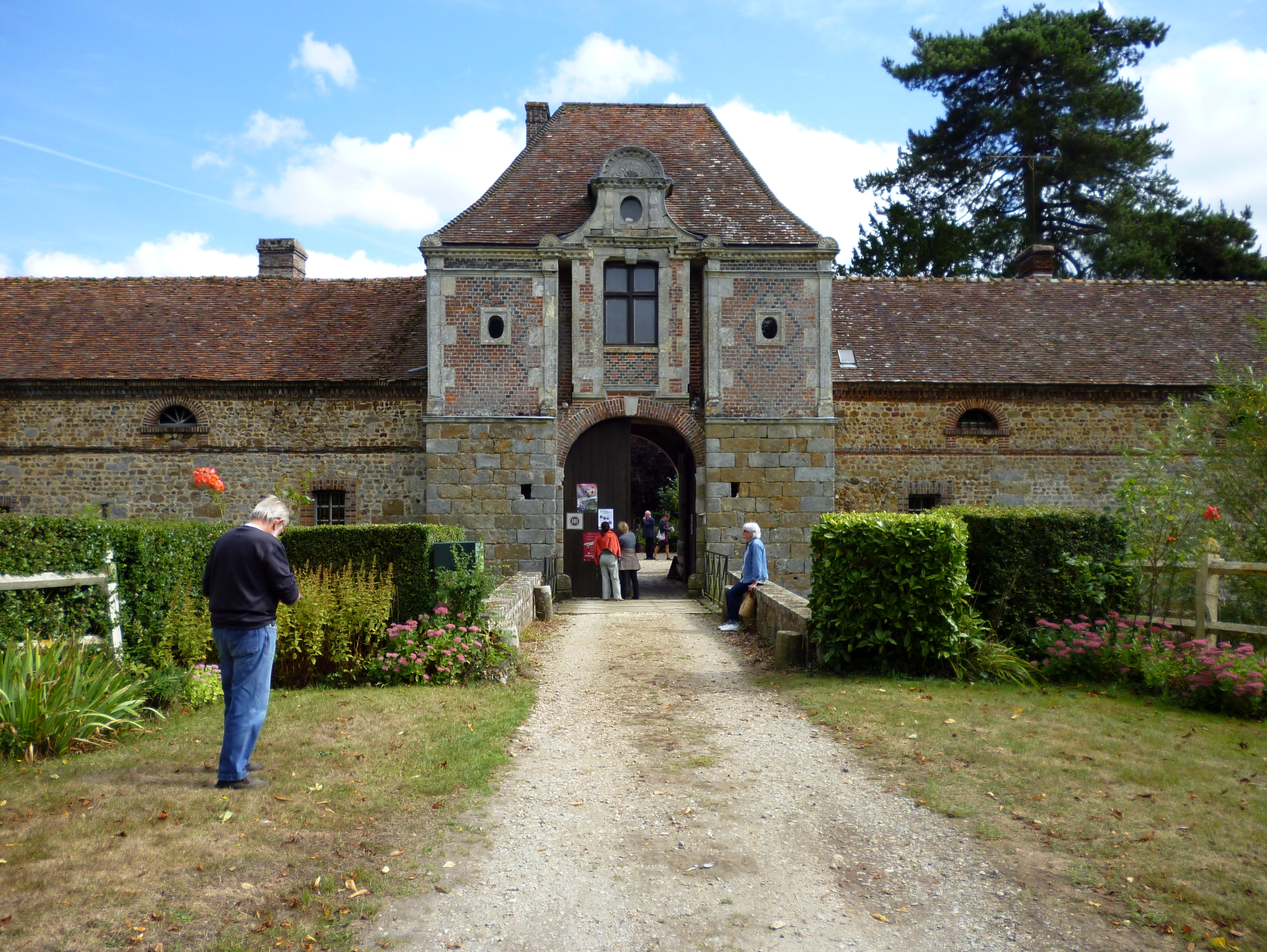 Château de Blanc-Buisson in Saint-Pierre-du-Mesnil (Eure, France).